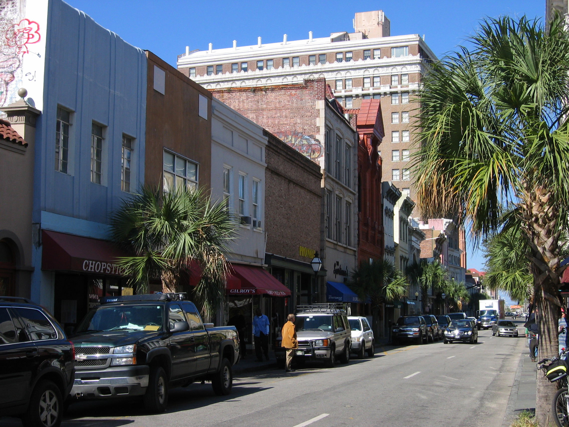 King Street in Charleston